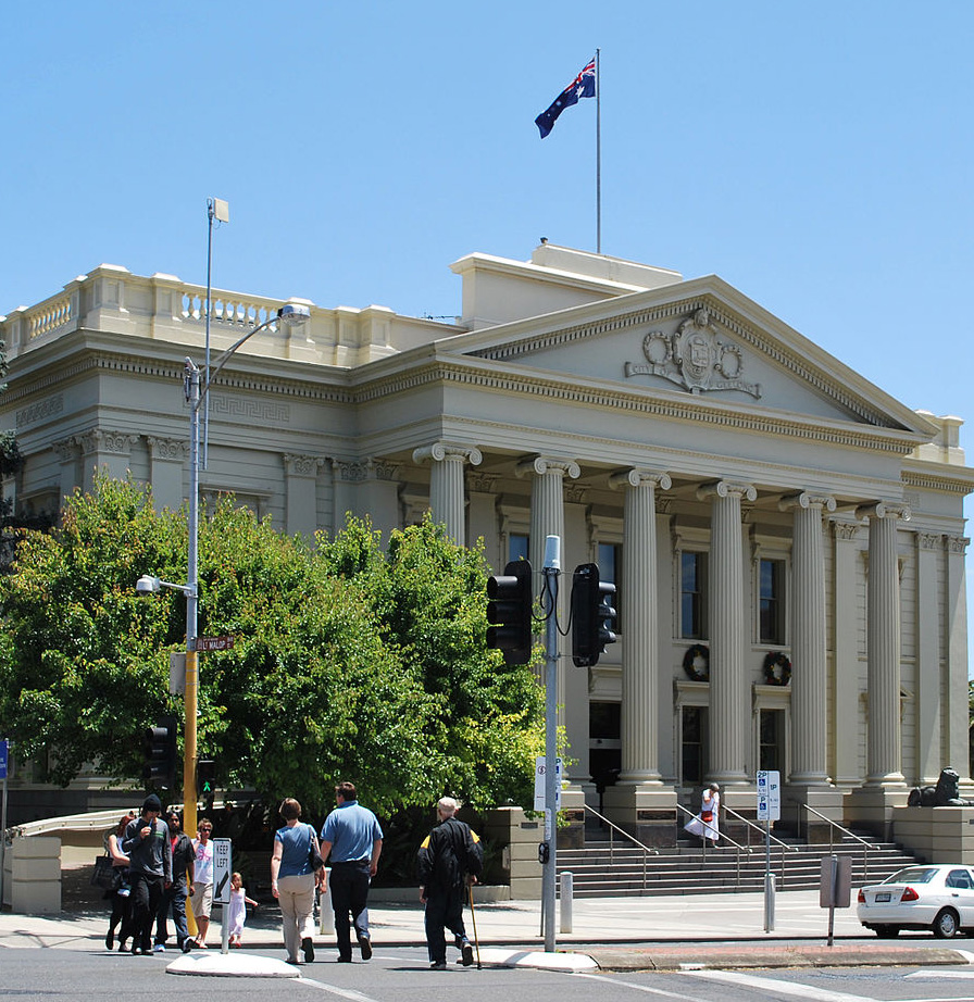 Geelong Town Hall, Victoria, Australia